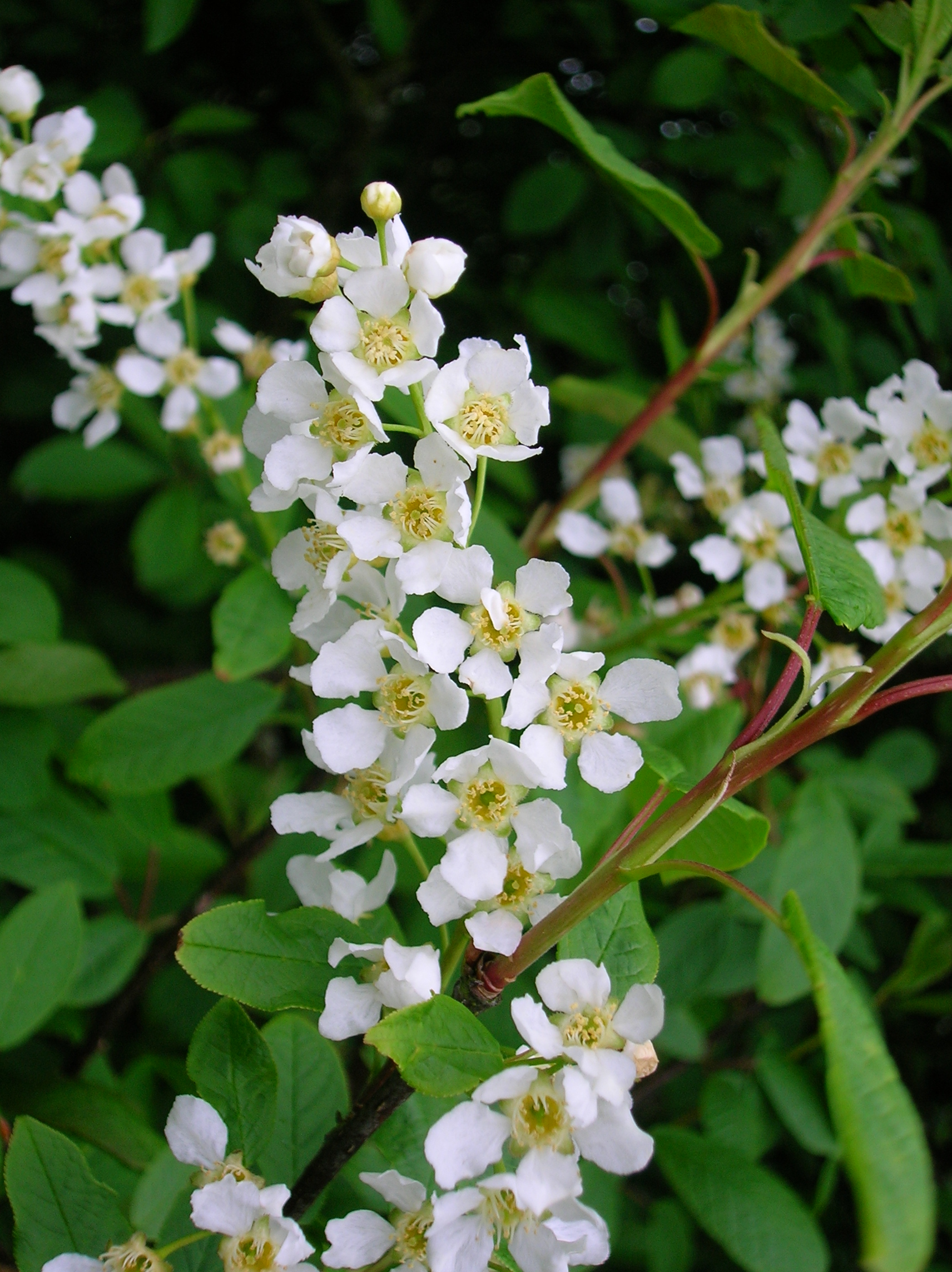 Bird Cherry (Prunus padus) in full flower, Eglinton, North Ayrshire, Scotland